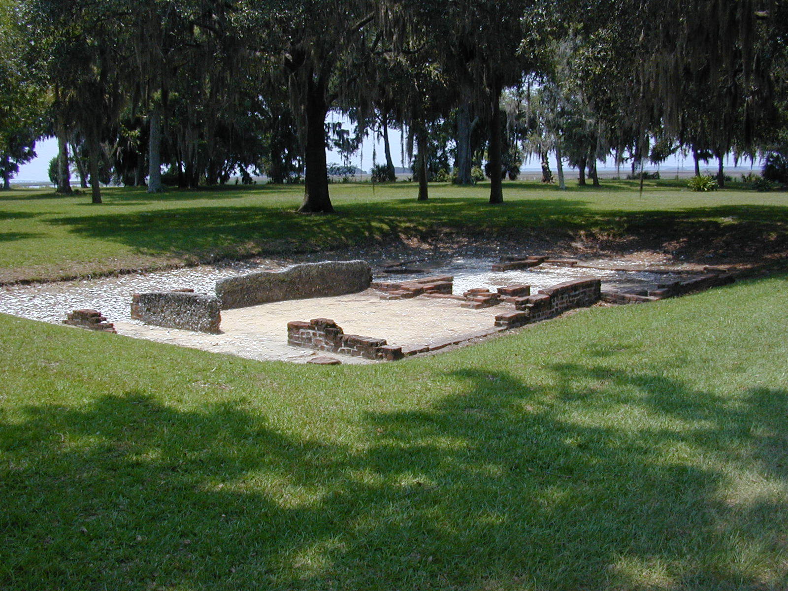 One of the unearthed remains o a house in Frederica at the Fort Frederica National Monument